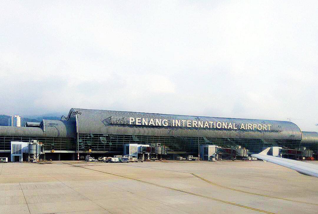 The front view of Penang International Airport, Malaysia